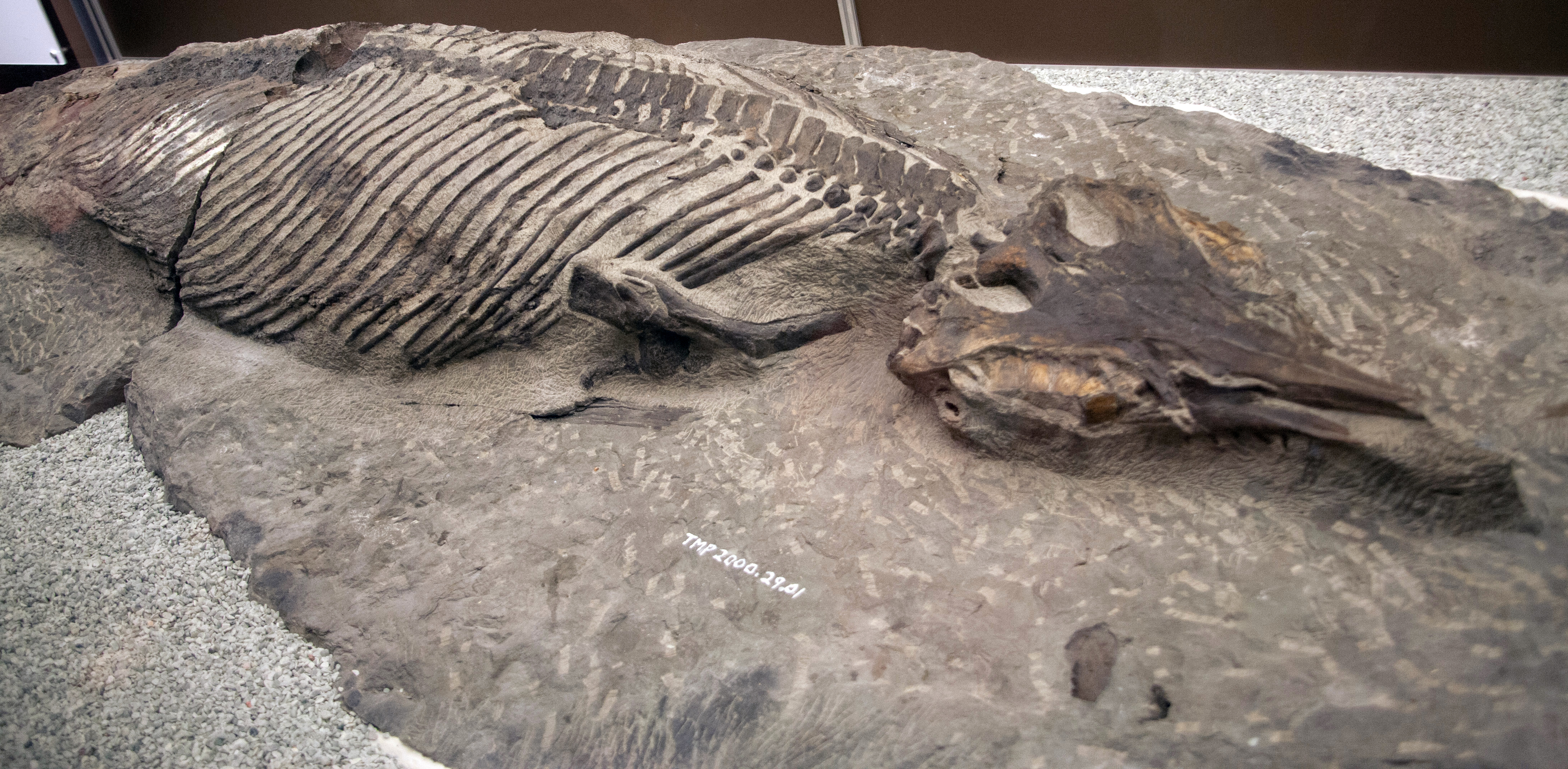 Holotype specimen TMP 2000.29.01 of the ophthalmosaurian ichthyosaur Athabascasaurus bitumineus from the Lower Cretaceous Clearwater Formation of Alberta, in Royal Tyrrell Museum, Drumheller, Alberta, Canada.